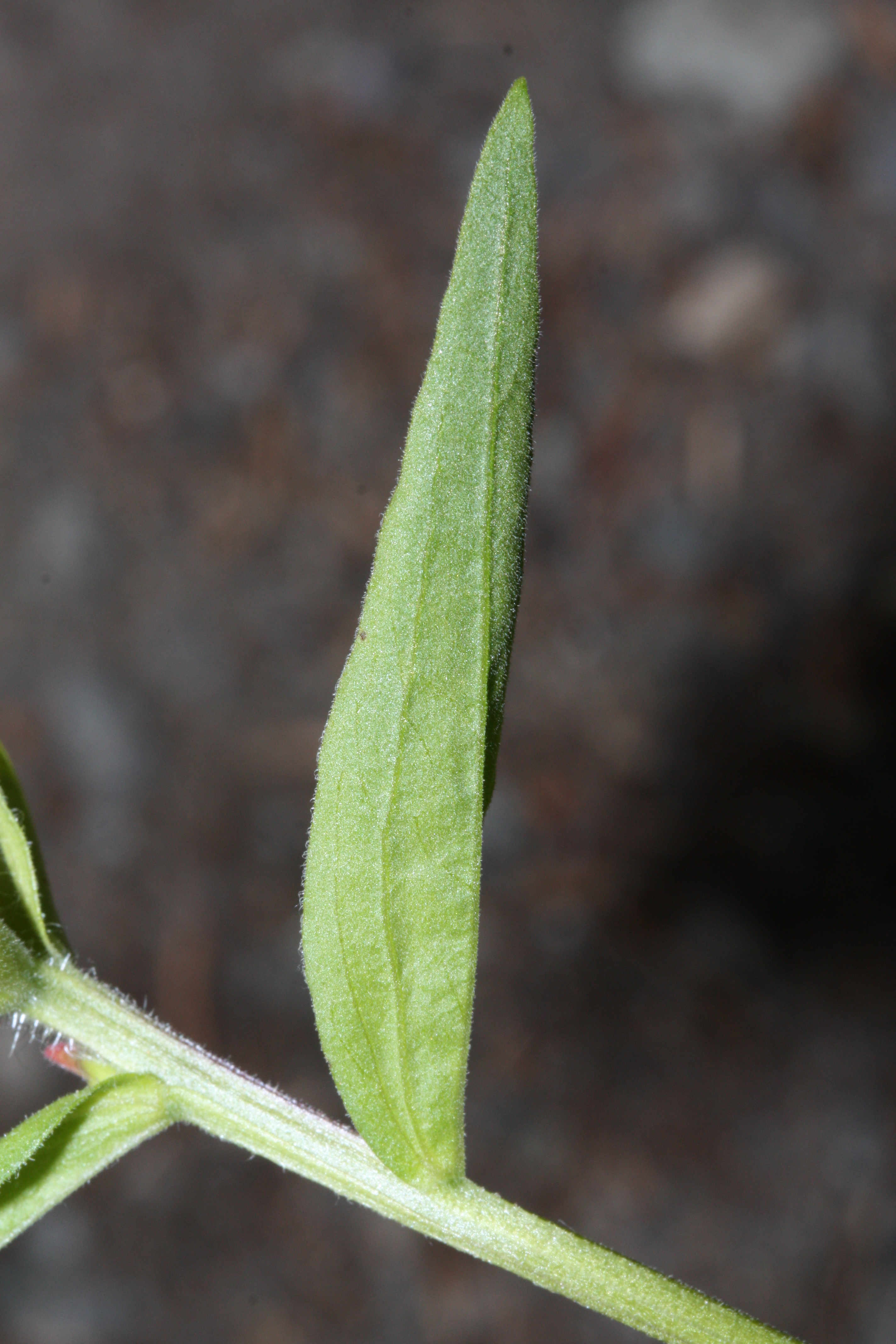 Scarlet Paintbrush